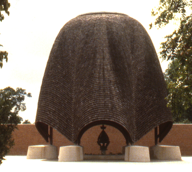 The canopy of the „Roofless Church“ in New Harmony, Indiana, United States, designed 1960 by the architect Philip Johnson.